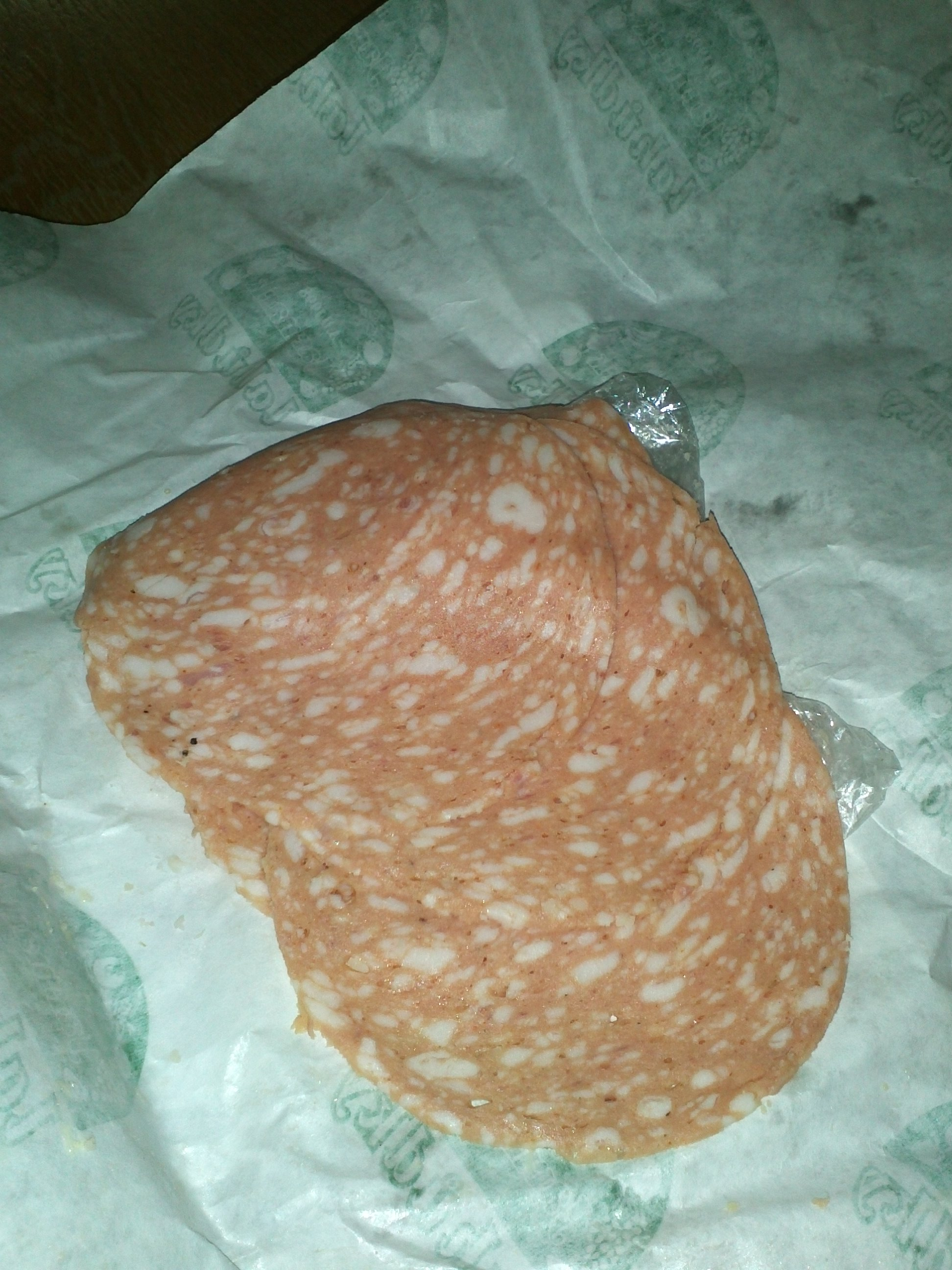 Gothaj salami on the paper.